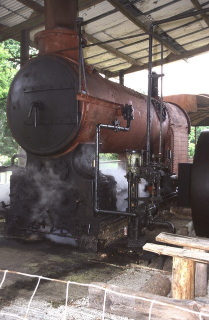 Marshall undertype steam engine, Fengate Farm Demonstrated at the annual steam rally. This particular steaming was a one off for the International Stationary steam Engine Society.